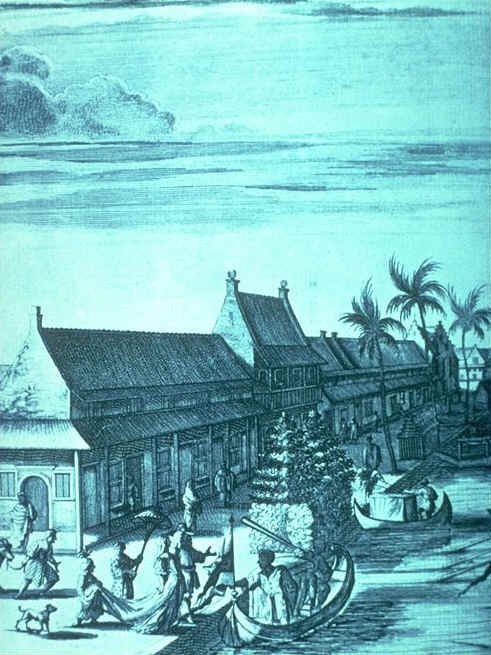 Dutch settlement in the East Indies. Batavia, Java (now Jakarta), c. 1665. [1]